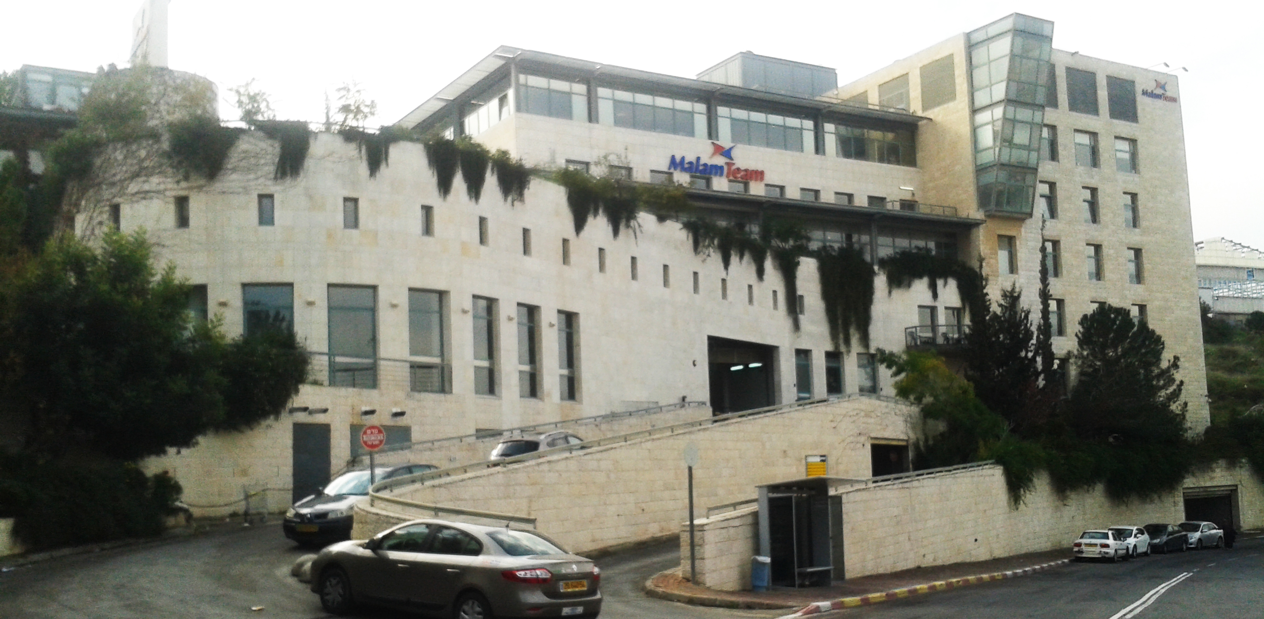 Malam Team building, Jerusalem